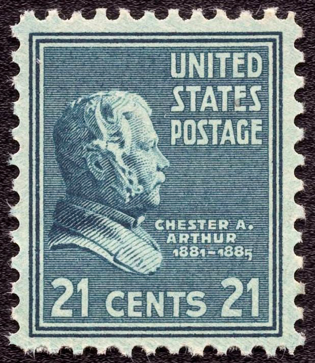 US Postage stamp: Chester A. Arthur, Presidential Issue of 1938, 21c